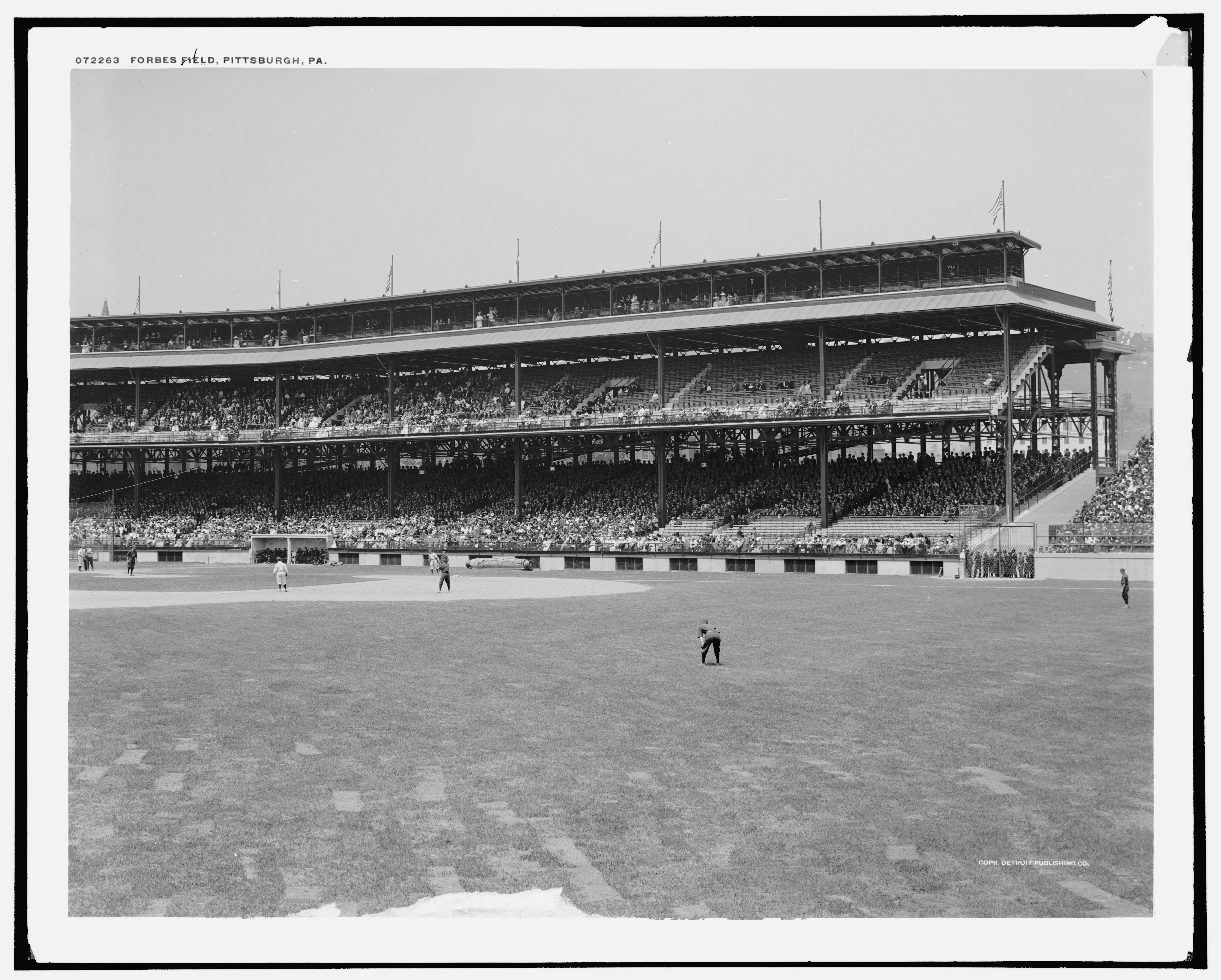 Forbes Field in Pittsburgh, Pennsylvania. Part of a 5-photo panorama from the Library of Congress.